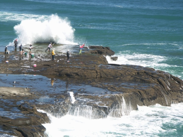 Muriwai Extreme Fishing - photo taken and uploaded by Paul Moss, Photographer, Artist, Paul Moss Photographer Artist NZ